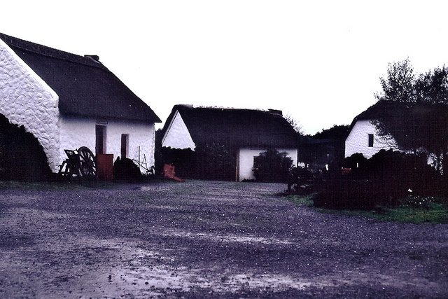 Ring 0f Kerry - Kerry Bog Village on wet morning